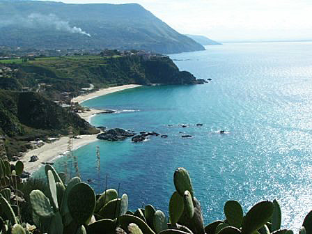 Aussicht am Capo Vaticano